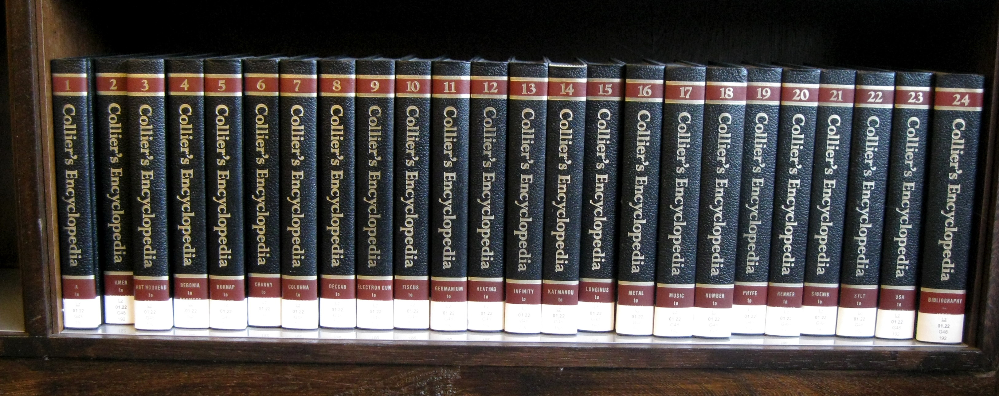 University library Nijmegen: Collier's Encyclopedia